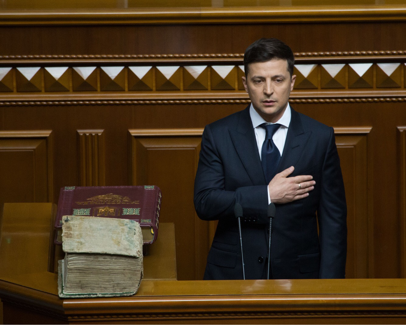 Volodymyr Zelensky presidential inauguration, 20th May 2019